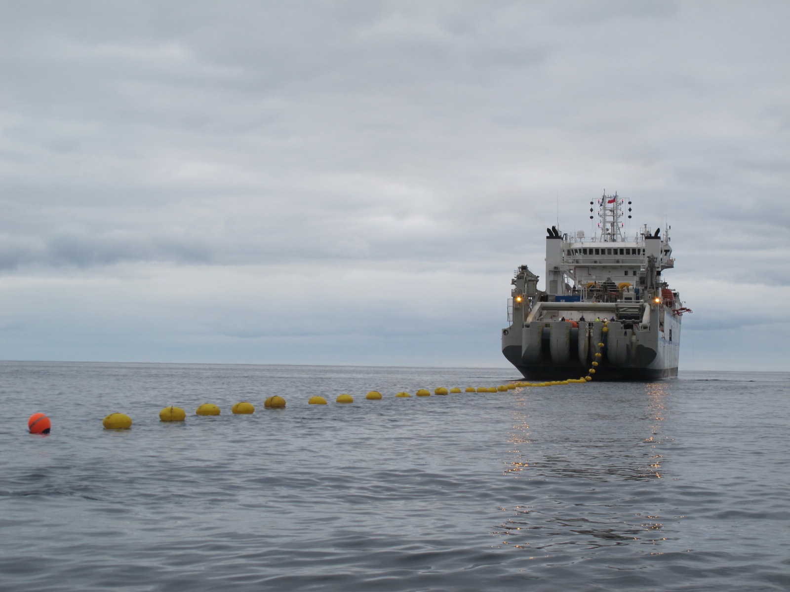 Deployment of the first hundred metres of cable